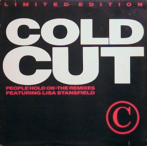 The Remixes of "People Hold On" by Coldcut featuring Lisa Stansfield; US limited edition 12-inch vinyl